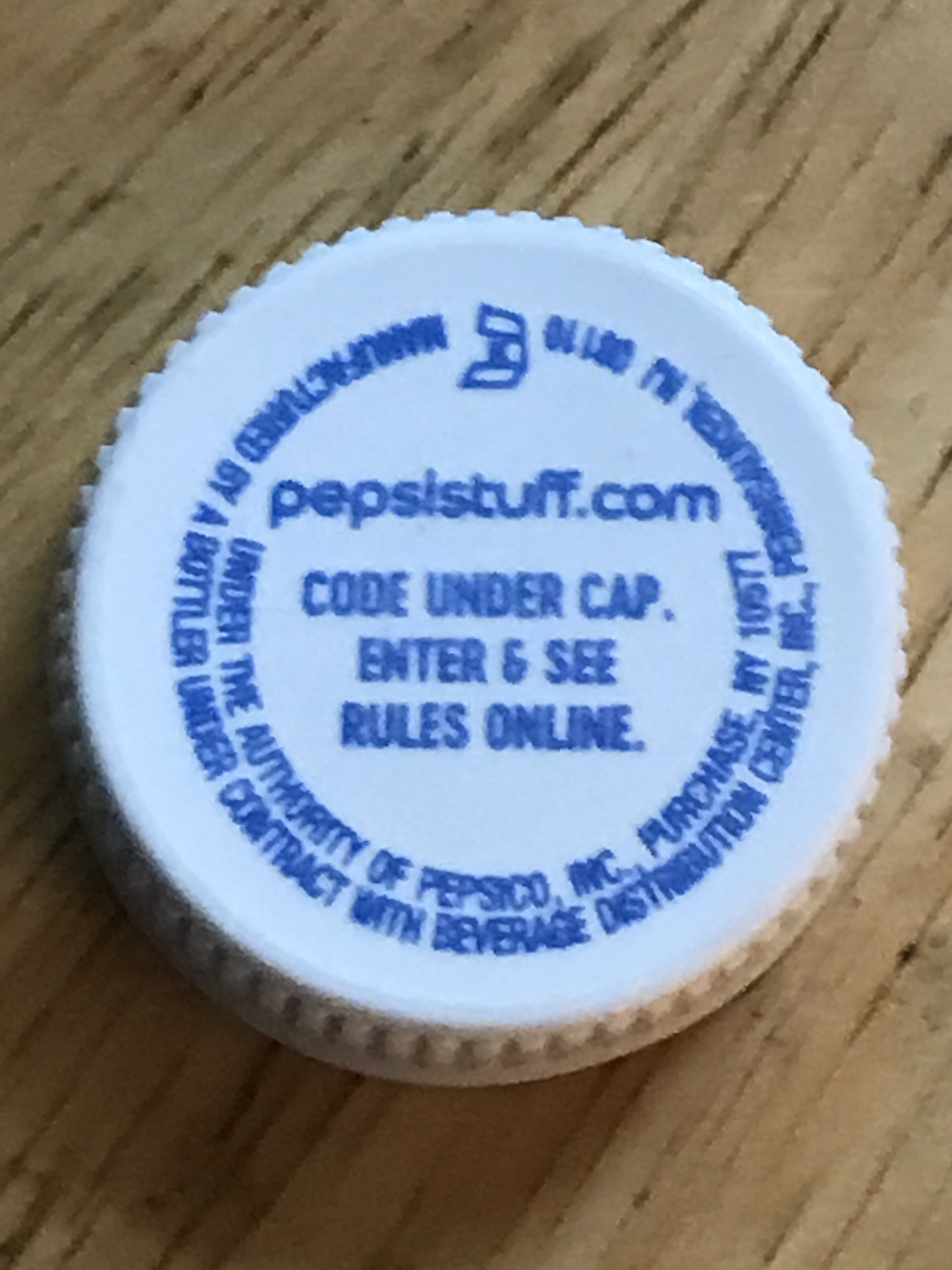 The Pepsi stuff cap for the 2018 promotion